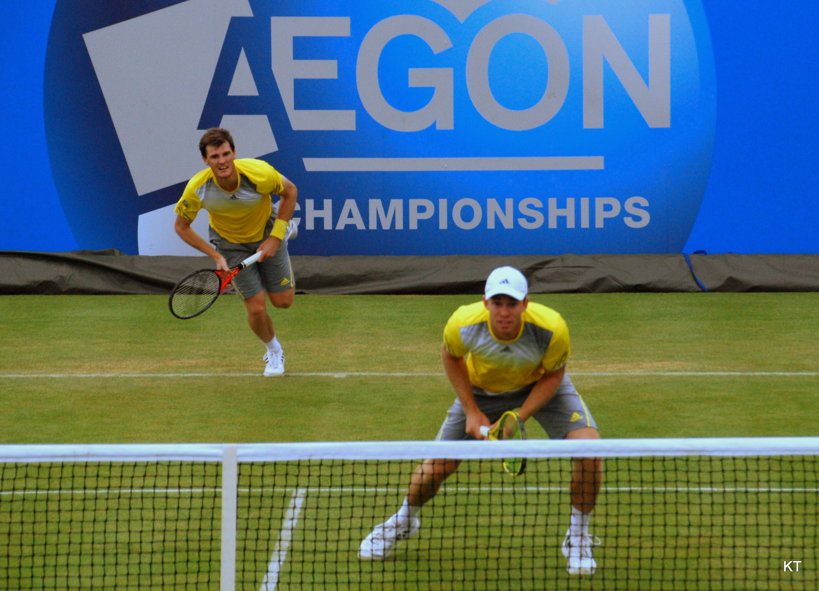 Jamie Murray and John Peers during their 1st round match with Grigor Dimitrov and Frederik Nielsen at the 2013 Aegon Championships. Murray and Peers won 7-6, 6-3.